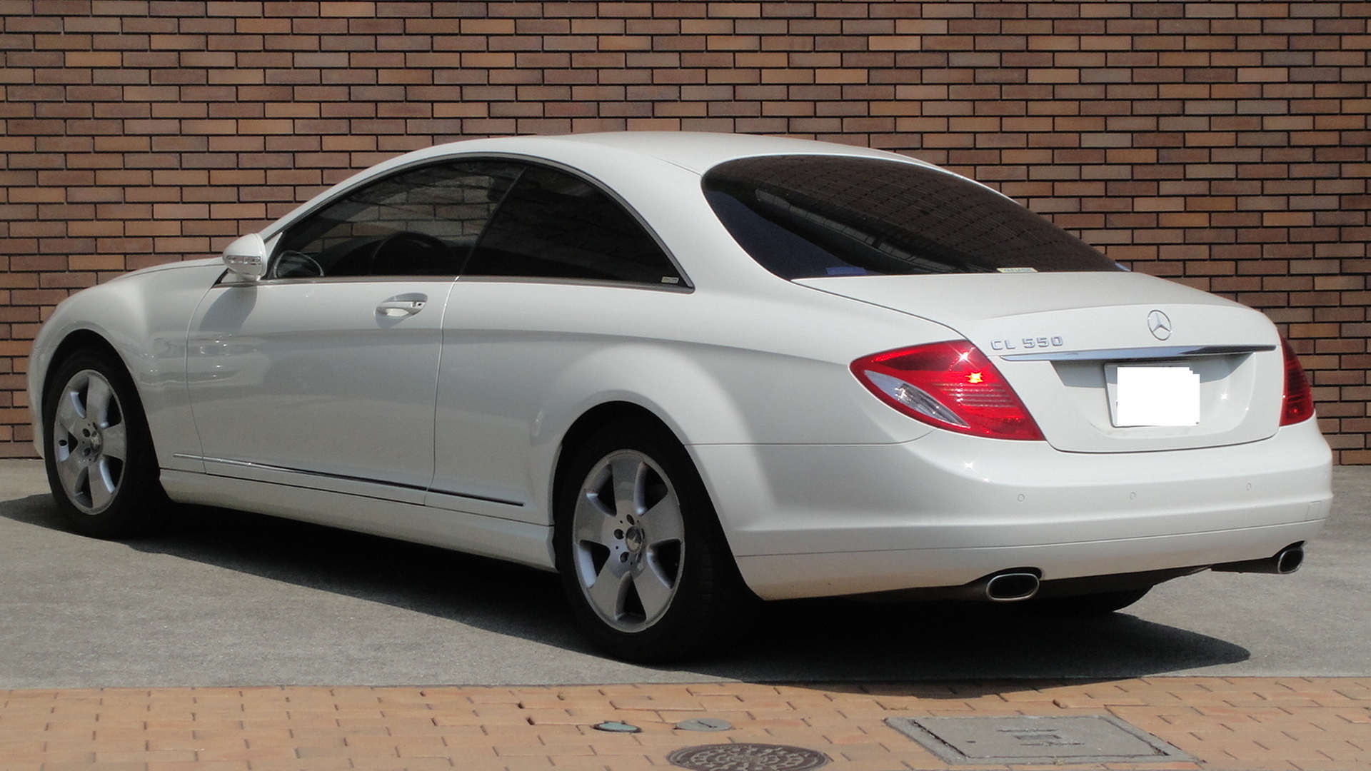 Mercedes CL550